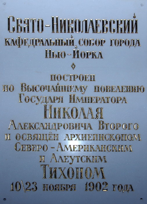 St. Nicholas Russian Orthodox Cathedral. Memorial plaque 1